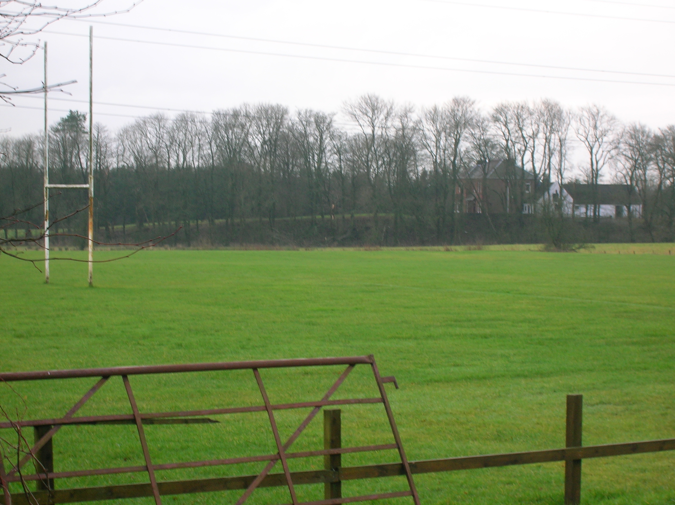 Marshlands playing fields and Craig House, Beith, North Ayrshire, Scotland.